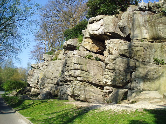 Rocks at Bowles Outdoor Centre This is a view of the lower end of Bowles Rocks.